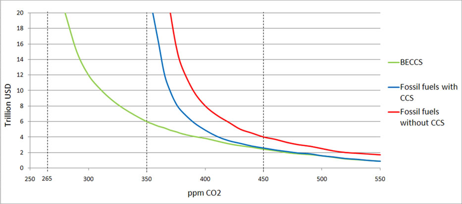 Graph representing estimated cost involved in reaching atmospheric carbon dioxide concentration levels of 265 ppm, 350 ppm and 450 ppm targets. Graph is referenced from: Azar, C., Lindgren, K., Larson, E.D. and Möllersten, K.: (2005) “Carbon capture and storage from fossil fuels and biomass – Costs and potential role in stabilising the atmosphere”, Climatic Change, 74, 47-79